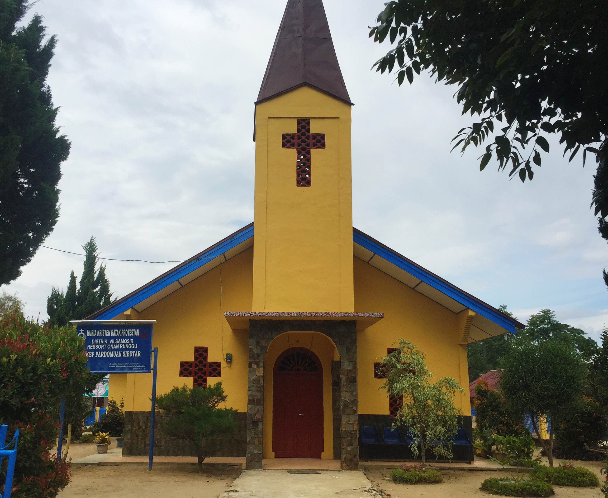 HKBP Pardomuan Sibutar, Church in Onan Runggu, Samosir